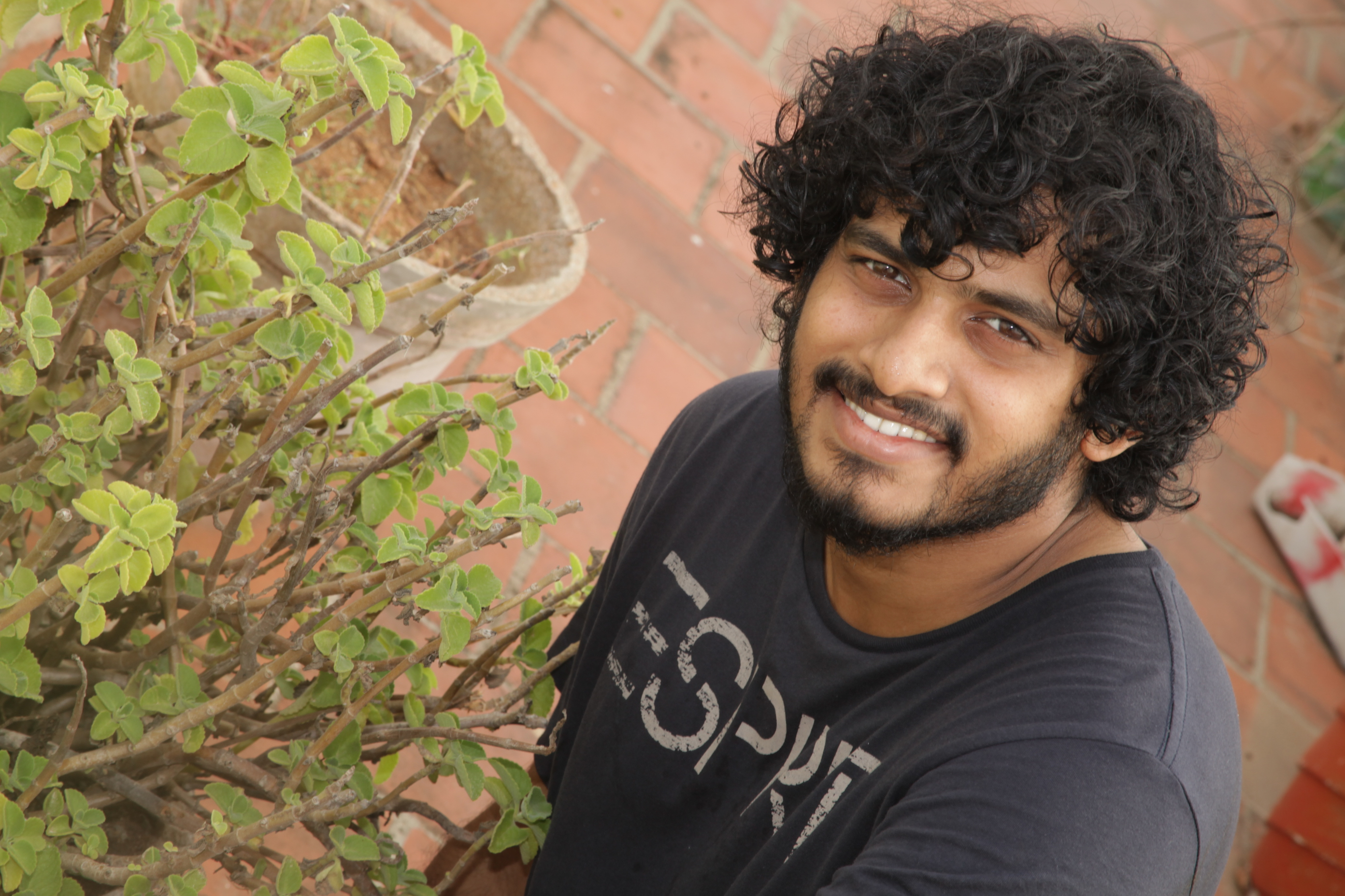 Suchith at Nisagandhi Palace, Trivandrum